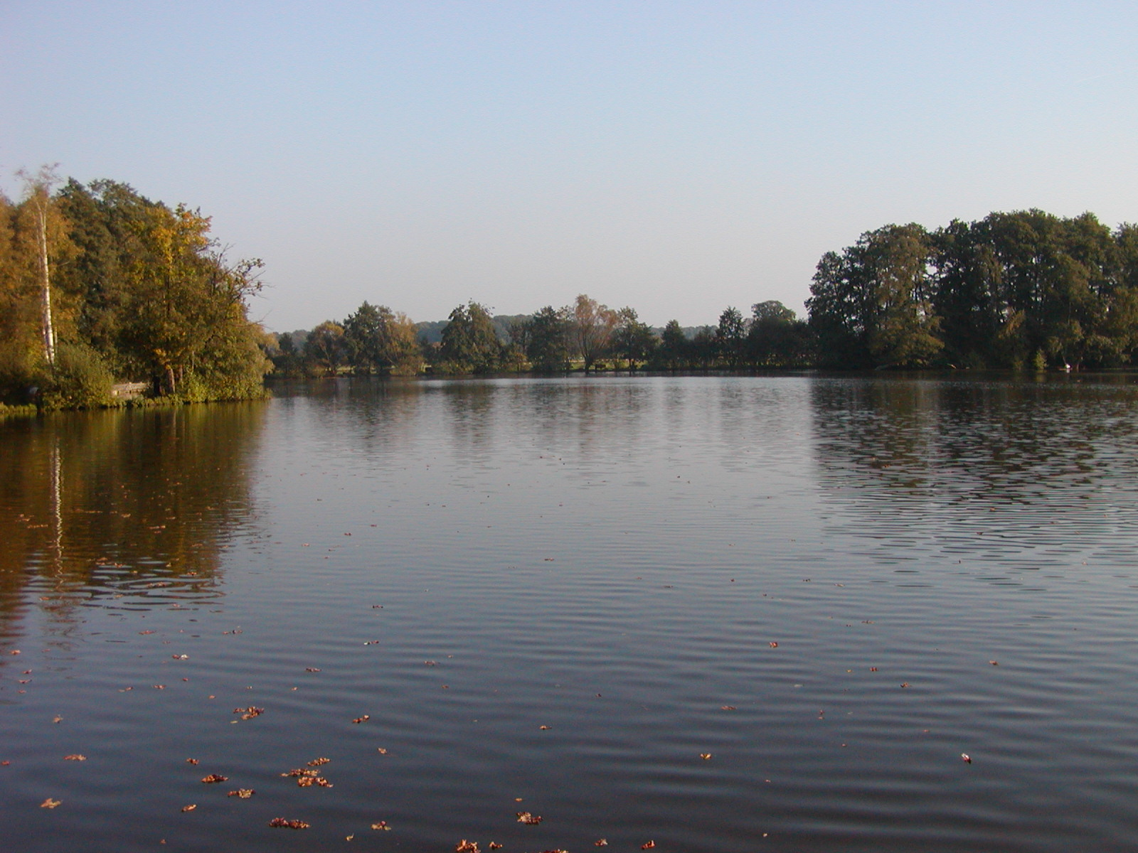 The peat-bog lake called Hücker Moor near the town of Spenge, District of Herford, North Rhine-Westphalia, Germany.